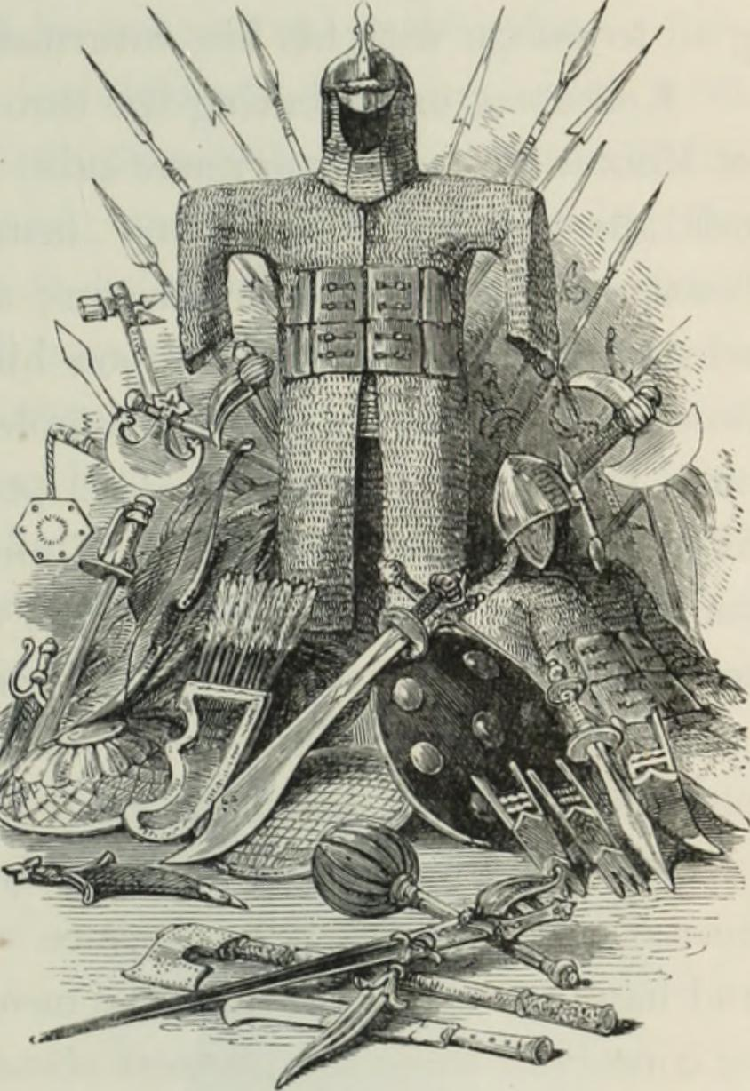 Identifier: comprehensivehis01beve Title: A comprehensive history of India, civil, military, and social, from the first landing of the English to the suppression of the Sepoy revolt; including an outline of the early history of Hindoostan Year: 1900 (1900s) Authors: Beveridge, Henry, 1837-1929 Subjects: Publisher: London, Blackie Text Appearing Before Image: were upon him. With his small band he thrice heroicallyrepulsed his assailants; but at la,st, overpowered by numbers, he fell mortallywounded, and almost instantly expired. His troops, who had gone in pvu-suitof the flpng enemy, on returning with the shouts of victory, found theirprince weltering in his blood. The voice of triumph was immediately turnedto wailing, and every eye was in tears. The dismal news broke the old kingsheart, and he only lingered on, a\ ishi g for death to release him. When he found his end approaching, he recalled his son, Khurra Khan, neatiioffrom Bengal, and nominated him his successor. He only sti))ulated that heshould appoint a deputy in Bengal, and remain with him at Delhi till his death. The suits of mail are in the Meyrick Collection weapons are from Lan^les, Mnniimrnit Ancieps elat Goodrich Court, as also the battle-a.\e, paiscash, Mmlerncx ile 1Thrtilnriatan, taken from an ancientand khanjar iu the foreground. The rest of the MS. of the Ayeen Akbery. Text Appearing After Image: Groip of Indian Armoir.